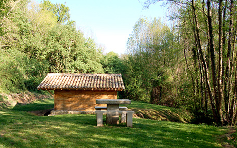 wash house